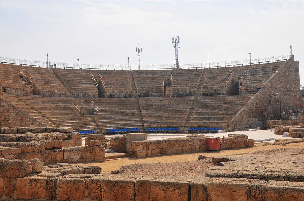 The Roman Theatre in Caesarea Maritima, Israel